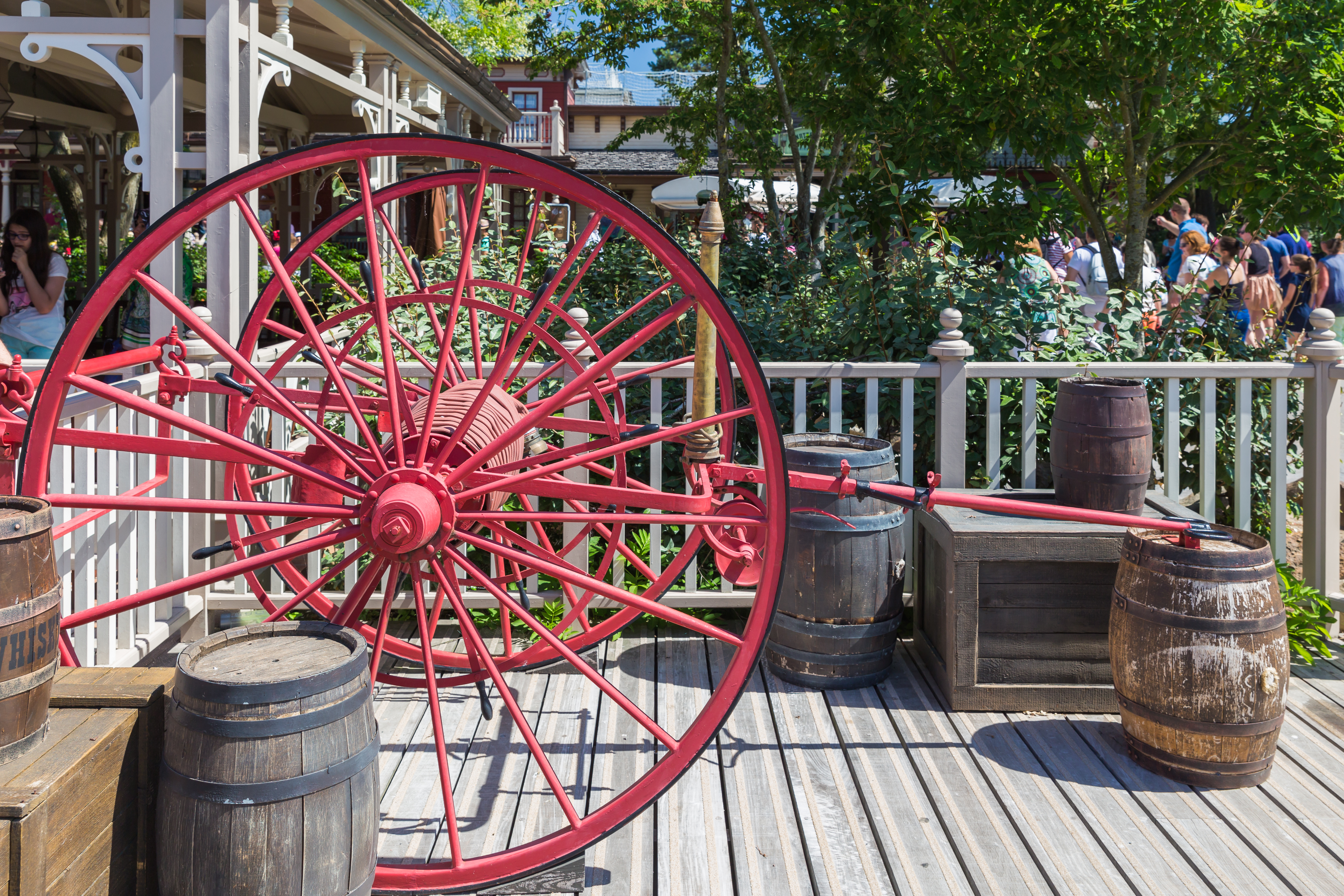 Fire hose reel with her at Disneyland Paris.